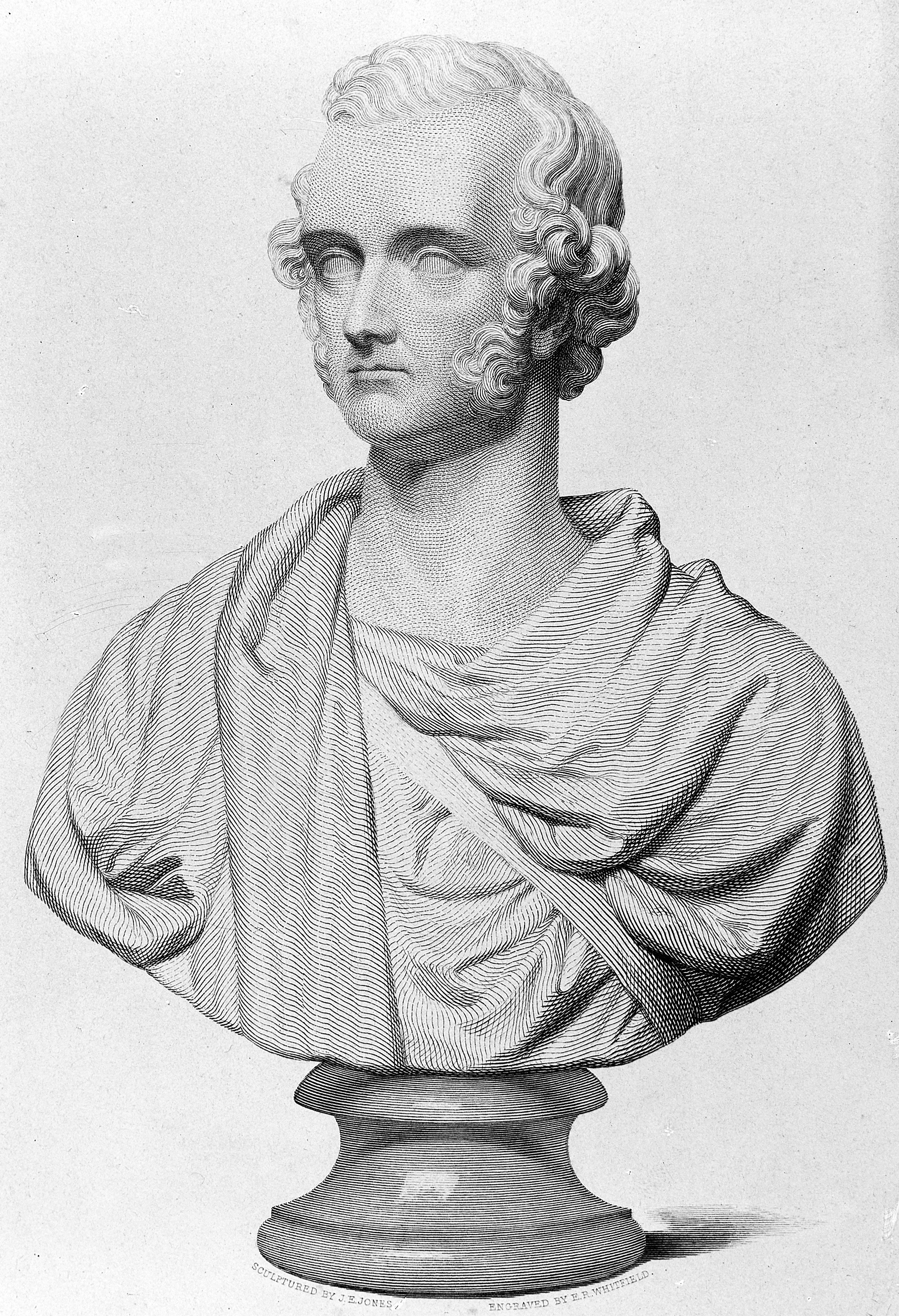 Bust of Sir James Alderson, physician to St. Mary's